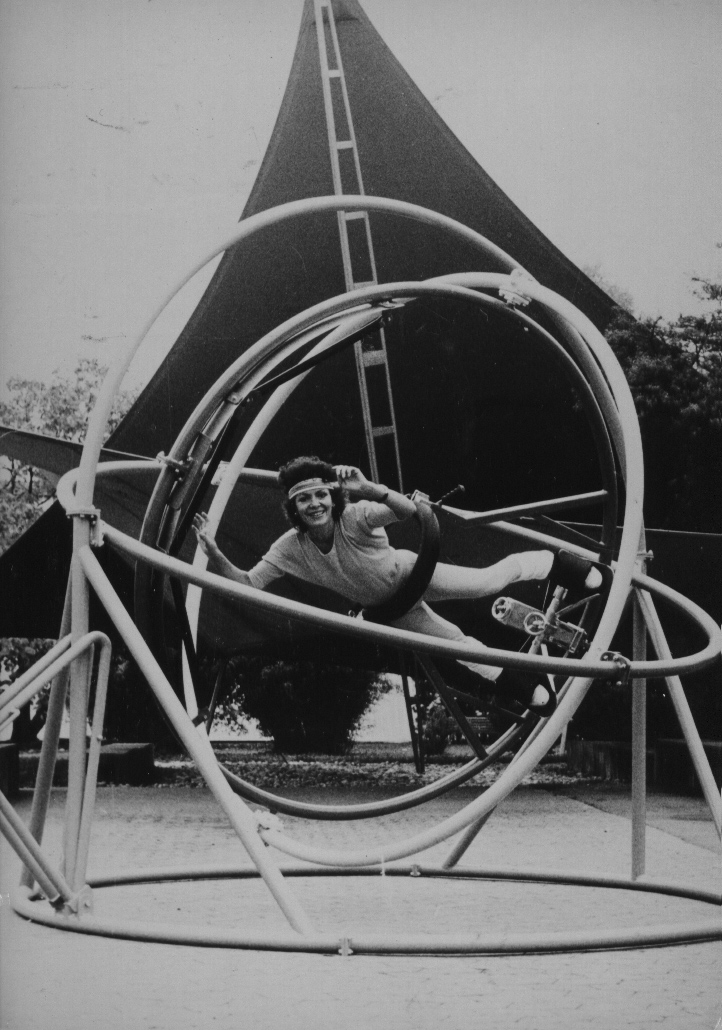 Mrs. Angelika Dittrich as Trainer in one of the first Aerotrim